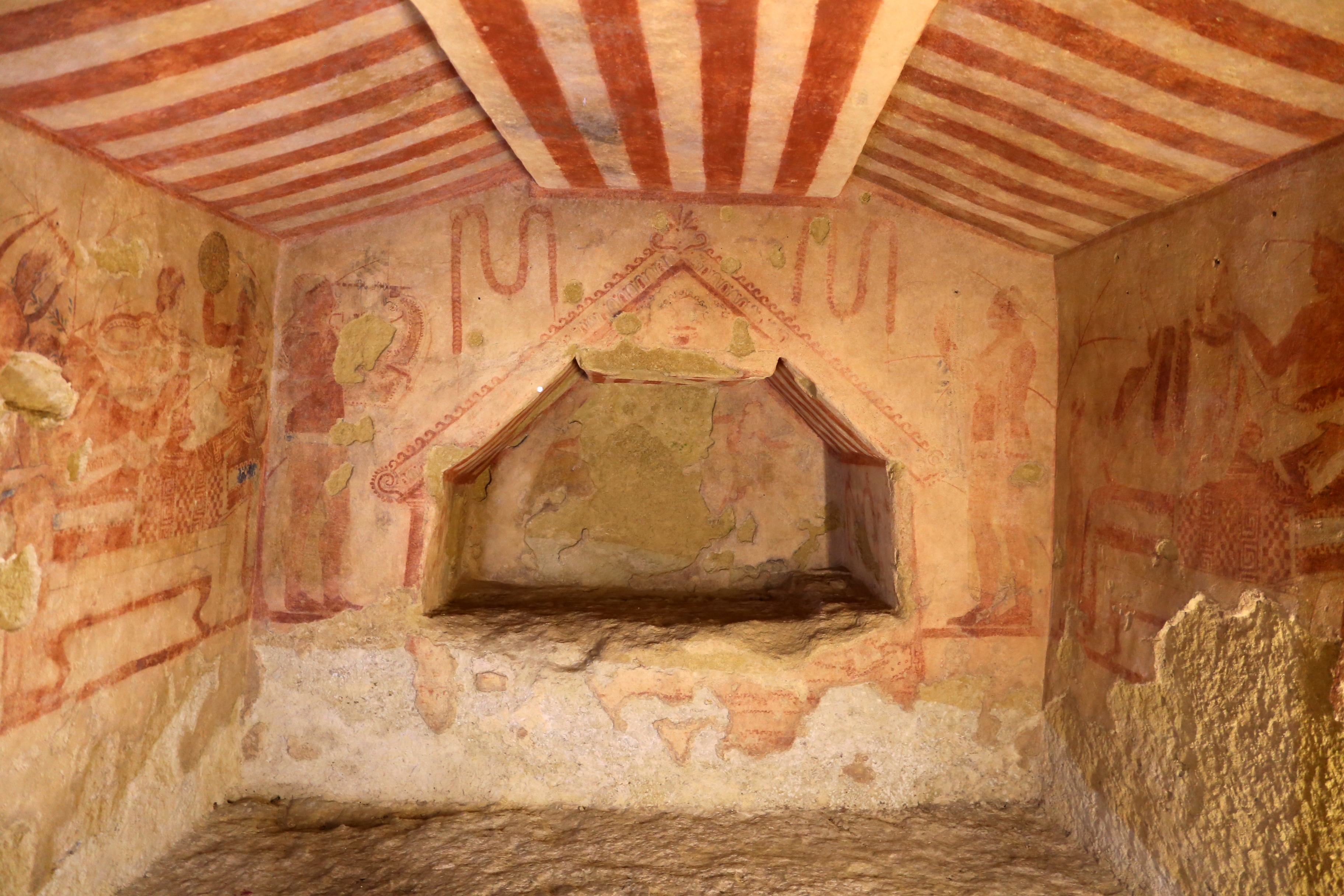 Necropoli dei Monterozzi (Tarquinia)